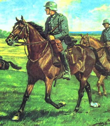 Troopers of Kavallerie-Regiment 18 of the Wehrmacht